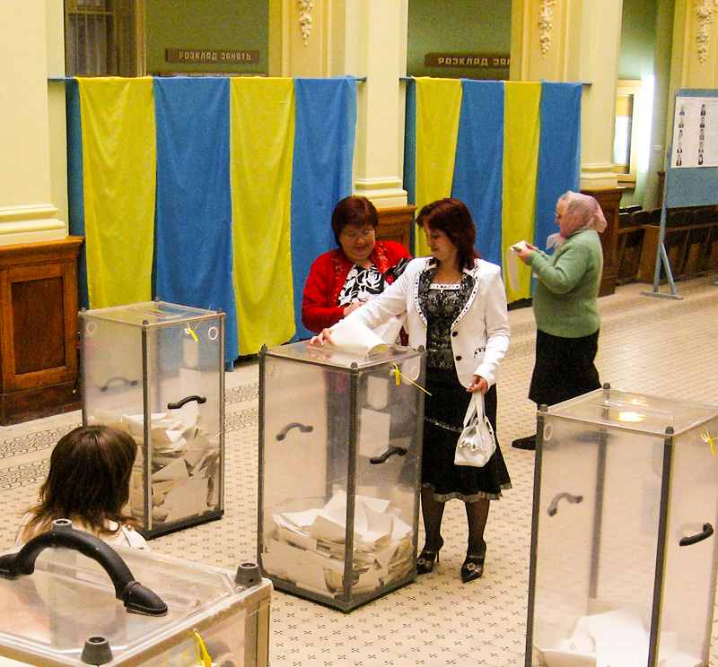 2007 elections to Verkhovna Rada (Parliament of Ukraine).